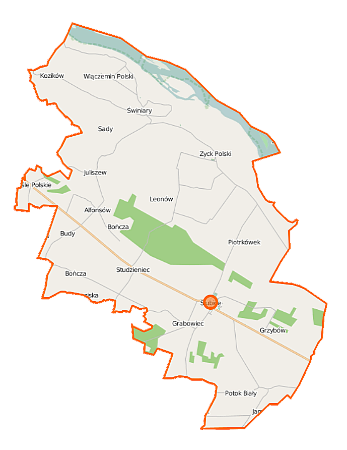 Map of Gmina Słubice, Poland This map of Słubice (gmina w województwie mazowieckim) was created from OpenStreetMap project data, collected by the community. This map may be incomplete, and may contain errors. Don't rely solely on it for navigation. Border coordinates52.469819.8241←↕→20.013052.3207